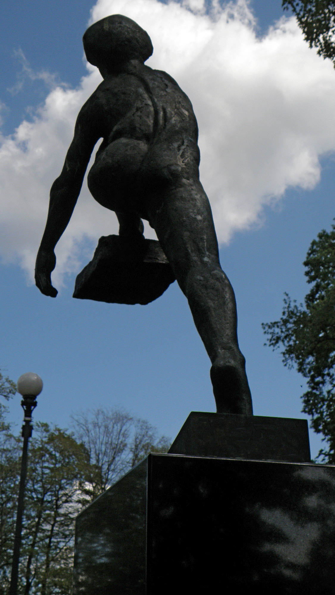 Climbing man. Bronze sculpture by Björn Therkelson, 1986. The Garden Society of Gothenburg, Sweden.